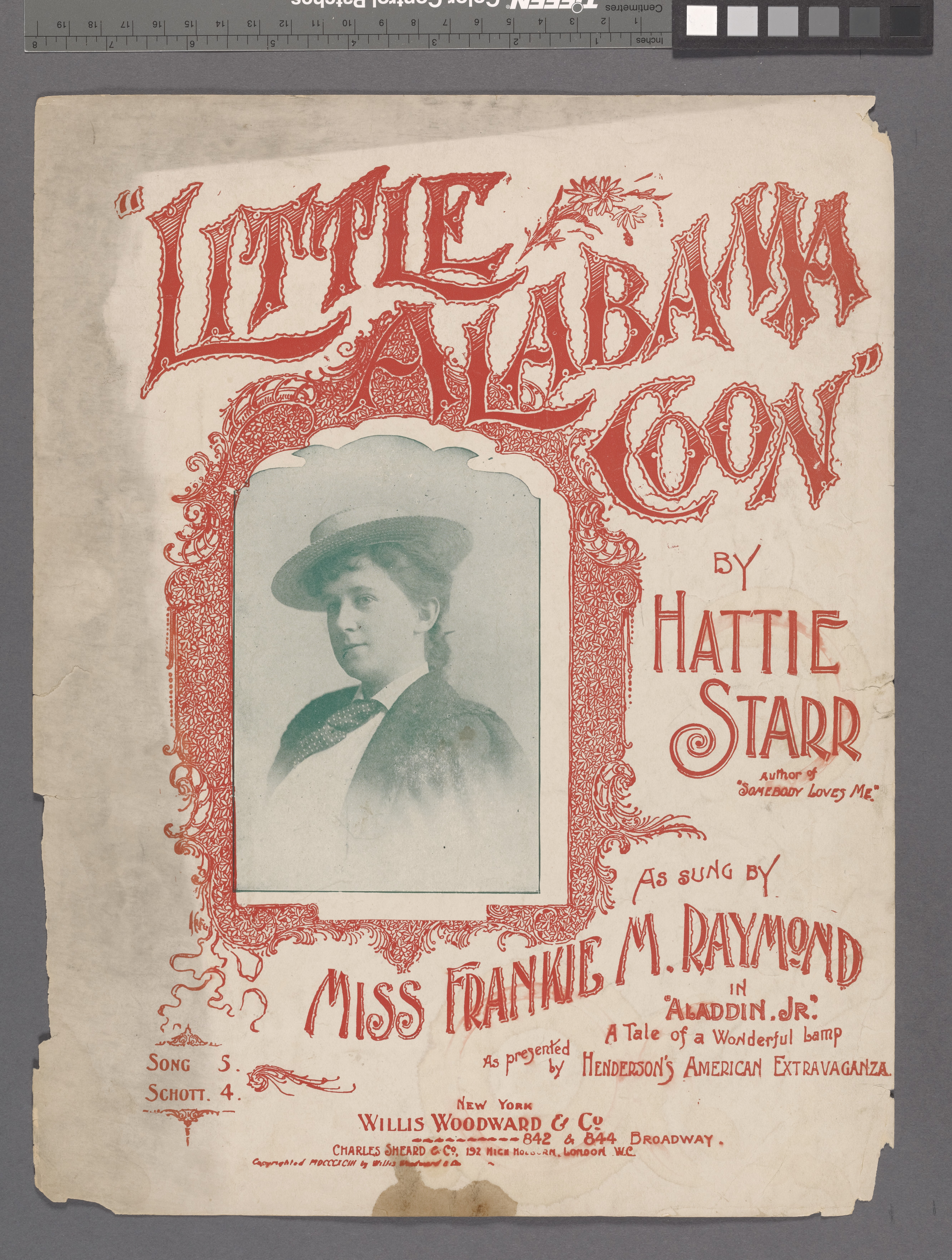 Repetition of chorus arranged for four-part chorus without piano accompaniment. Cover includes a photograph of Frankie M. Raymond wearing a straw hat. On cover: As sung by Miss Frankie M. Raymond in Aladdin, Jr., A Tale of a Wonderful Lamp as presented by Henderson's American Extravaganza [Co]. Statement of responsibility : by Hattie Starr.